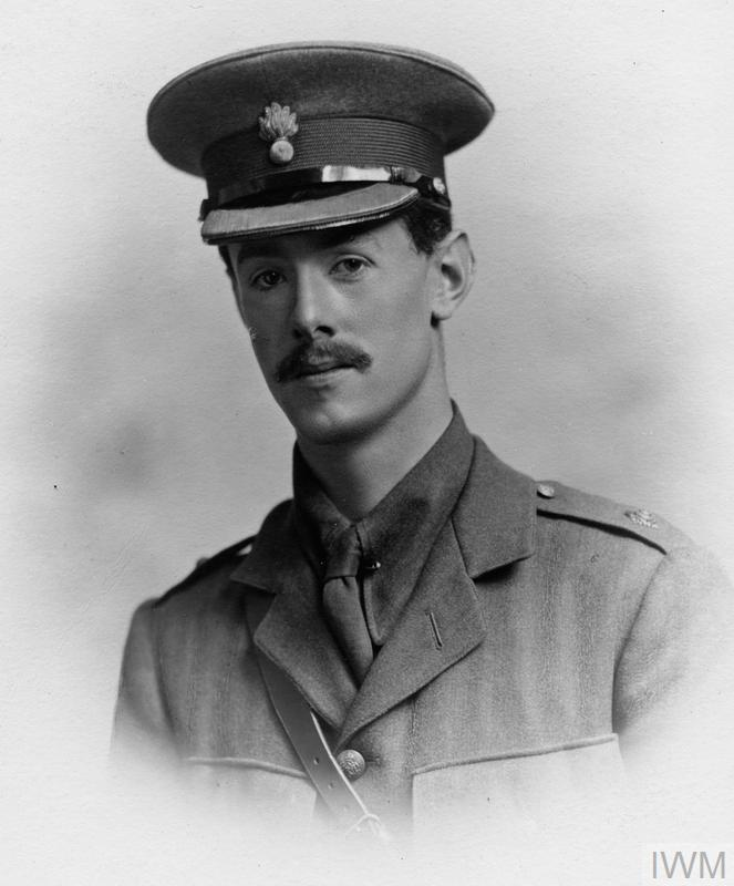 Lieutenant Arthur Horace Lang. Unit: 2nd Battalion, Grenadier Guards, attached to the Scots Guards. Death: 25 January 1915, Cuinchy, Flanders, Western Front.